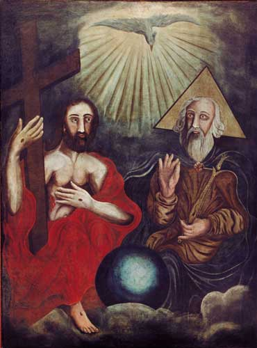 New Testament Trinity. The end of the 18th century. Old Belarusian History Museum.